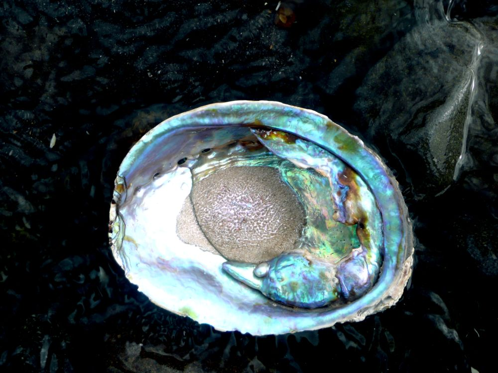 Natural Abalone with conical pearl taken at Oakura beach New Zealand